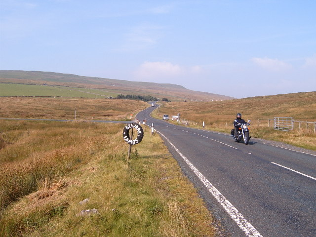 Newby Head Moss. B6255 with the junction for Dent